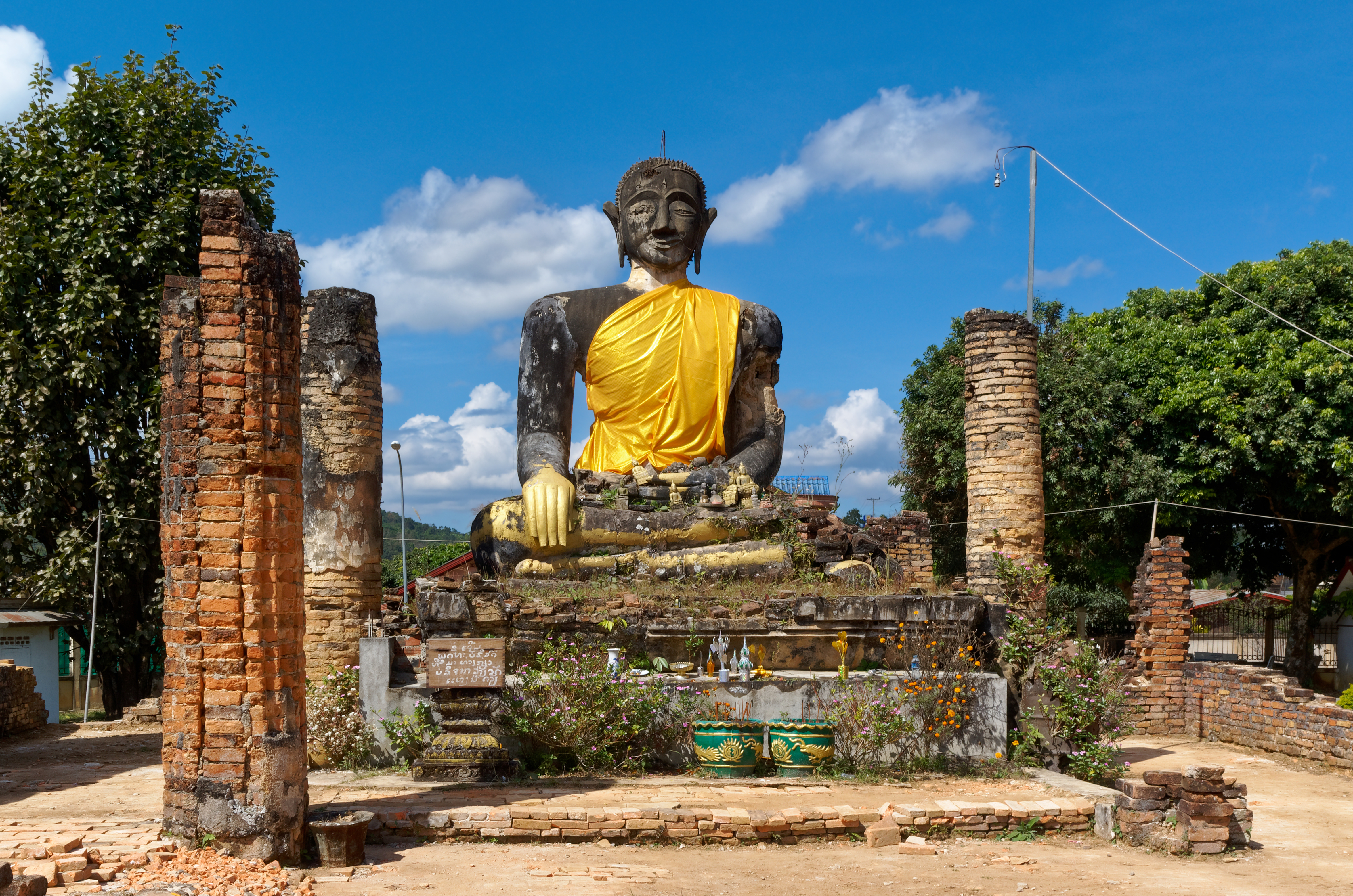 Buddha statue in the ruins of the bombed Wat Phiawat Temple in Muang Khoun